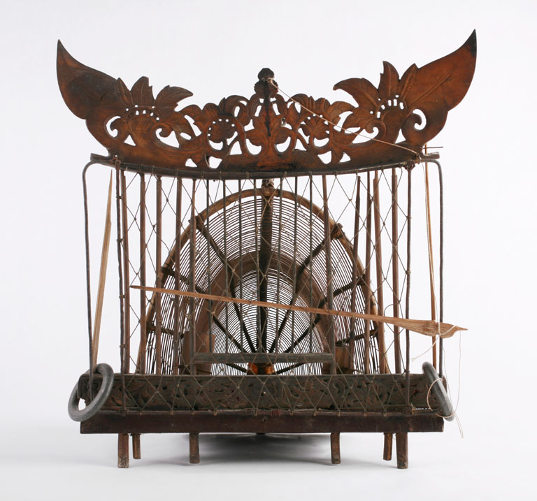 A Quail trap in the permanent collection of The Children’s Museum of Indianapolis.